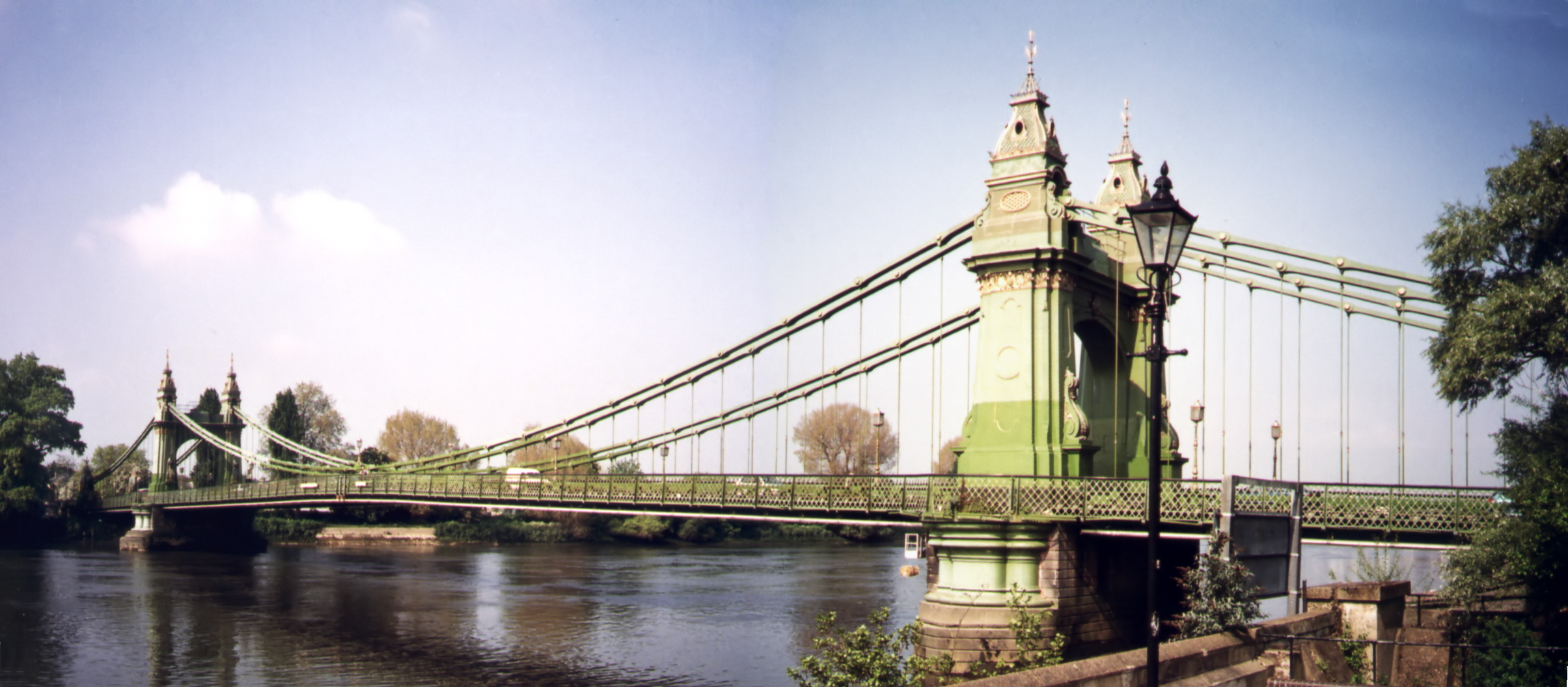 Hammersmith Bridge over the River Thames, London. Panorama from 2 photos. This was on Wikipedia and is moved by its author.